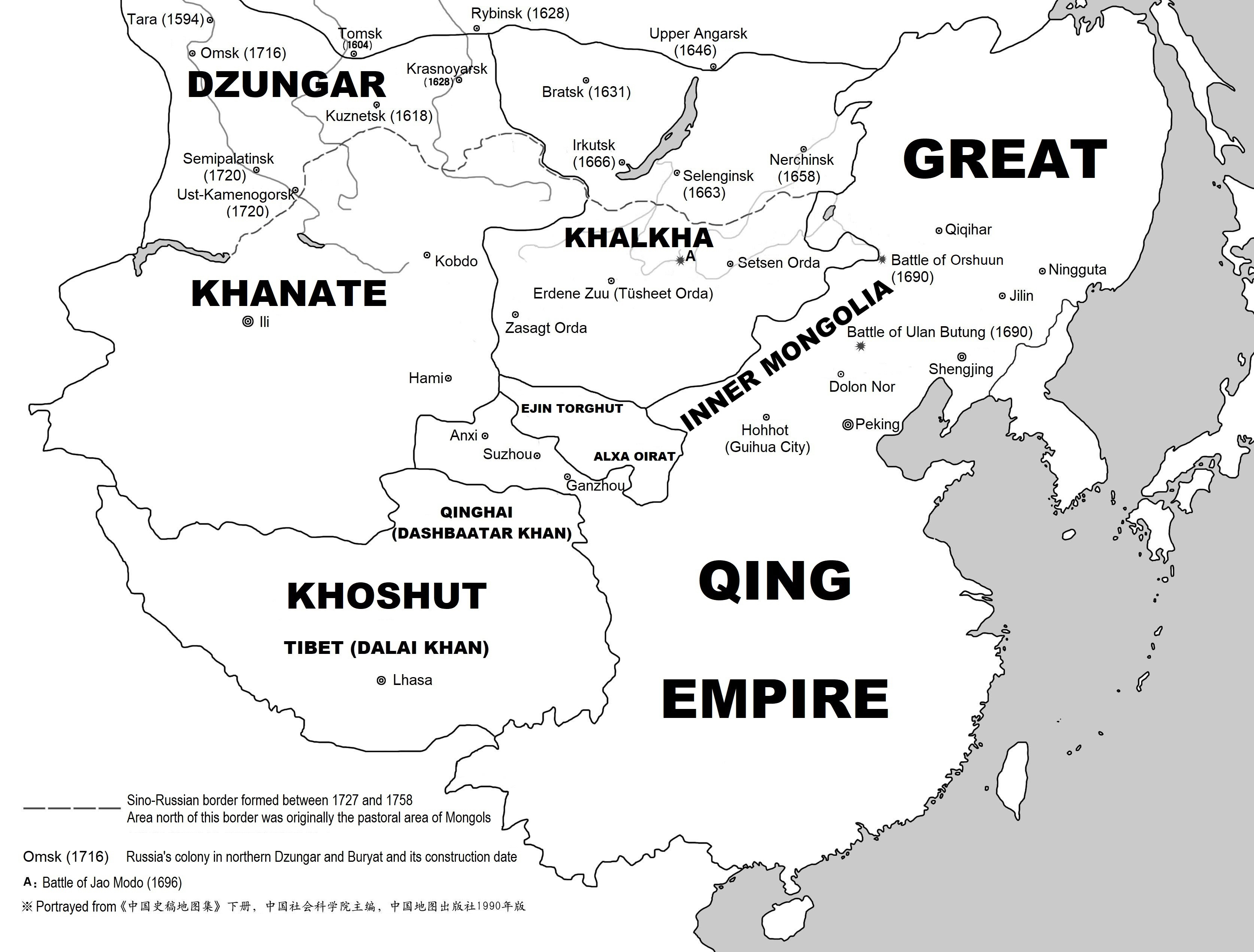 Qing Dynasty, Khalkha and Dzungaria